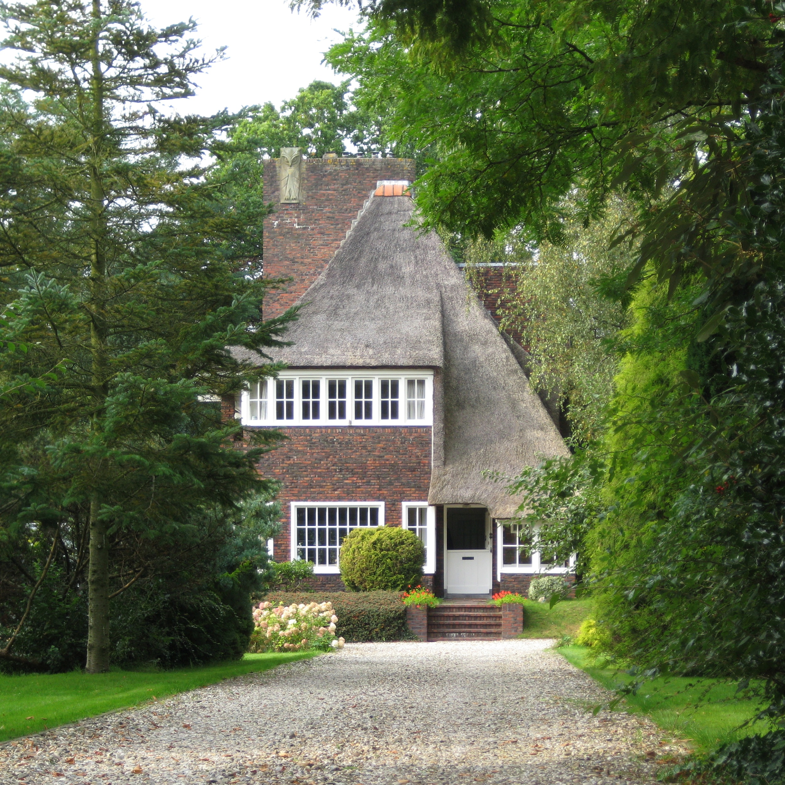 Villa (1928) in Haren, a village in the Dutch province of Groningen.